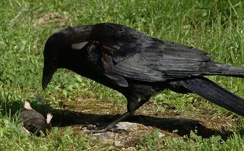 A raven or a rook (?) standing over a dead mole.